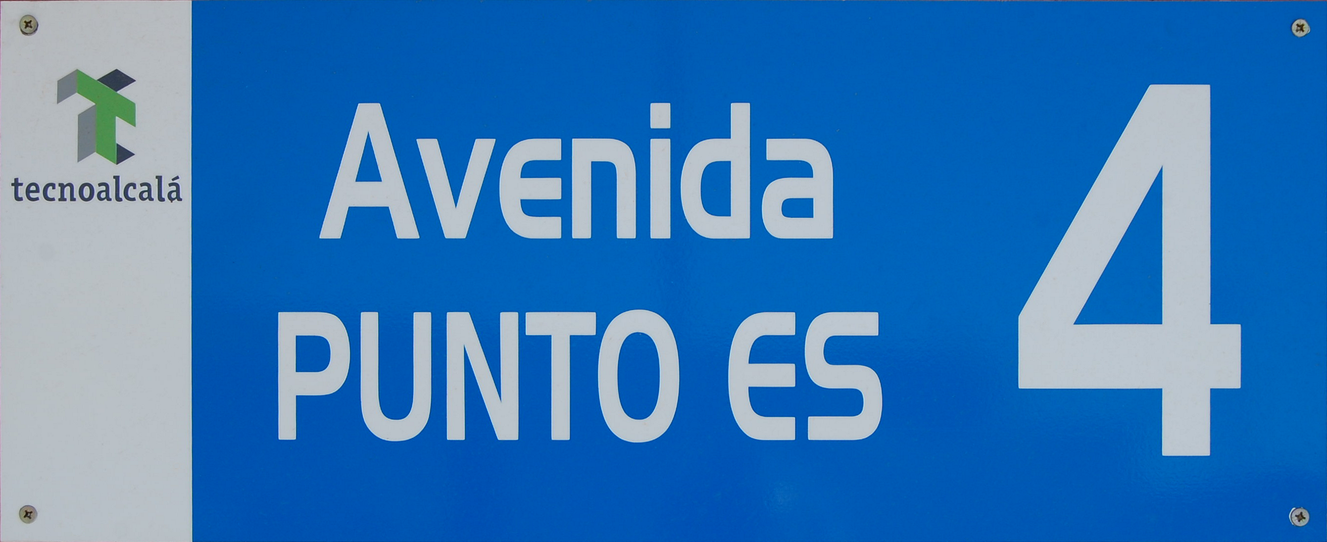 Street sign dedicated to domain name .es, in Alcalá de Henares (Community of Madrid - Spain).